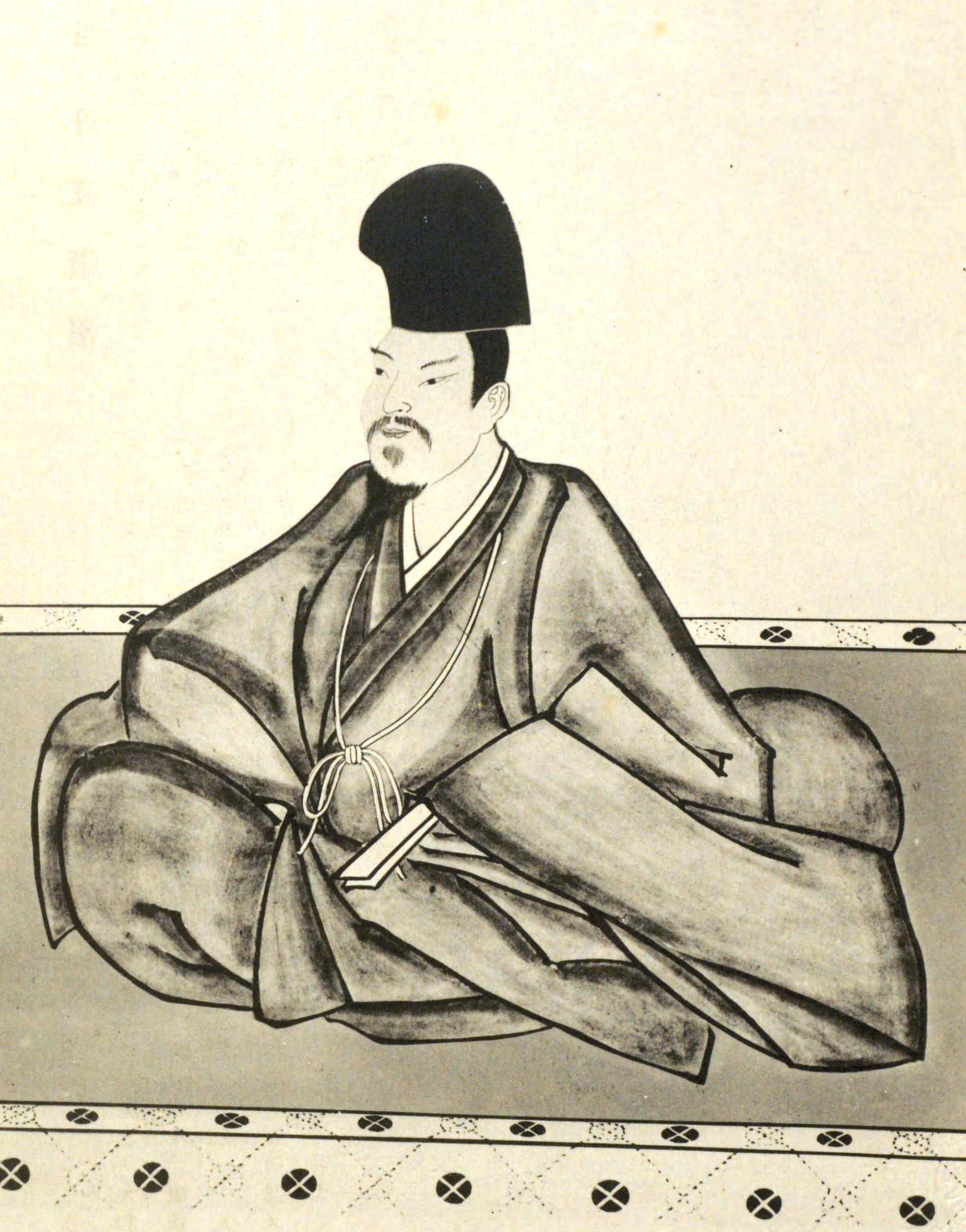 Portrait of Tamba no Yasuyori